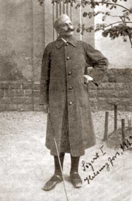 Sigert Patursson, adventurer from the Faroe Islands, in Helsinki (1912). Føroyskt: Tekstur á mynd: Sigert í Helsingfors, 1912